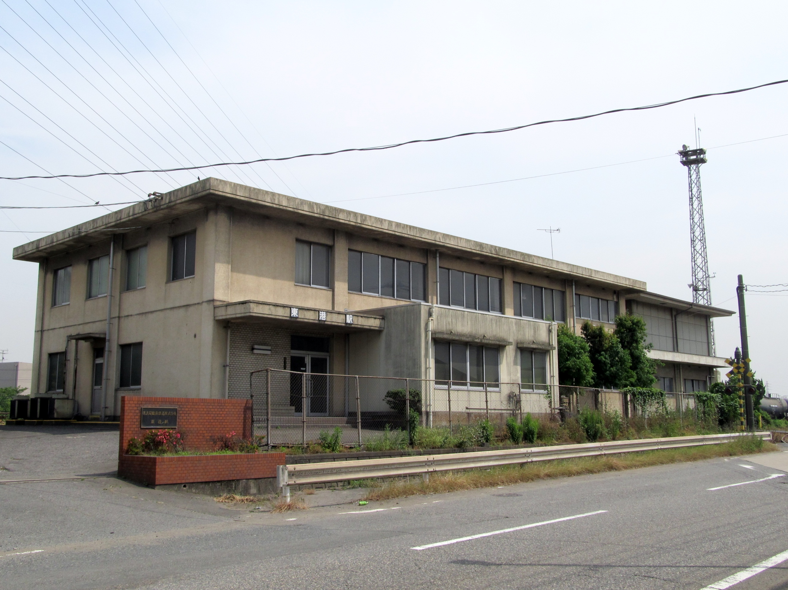 Nagoya Rinkai Railway Tōkō Freight Station Building